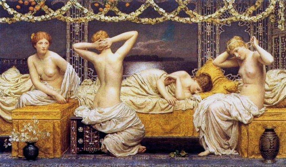 A Summer Night